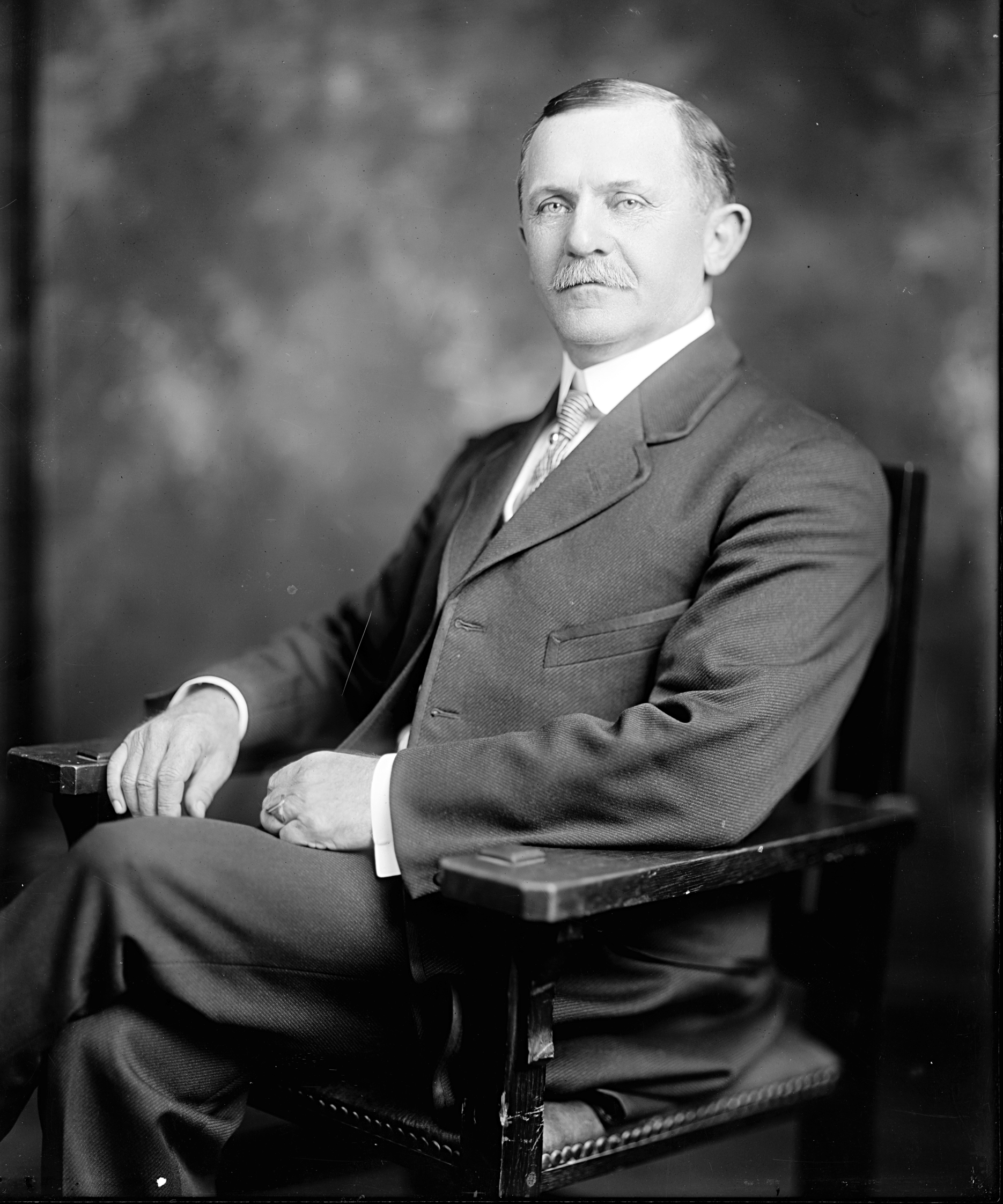 Andrew R. Brodbeck, US Representative from Pennsylvania